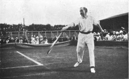 Arthur Gore (1868-1928), at the Wimbledon Championships 1901